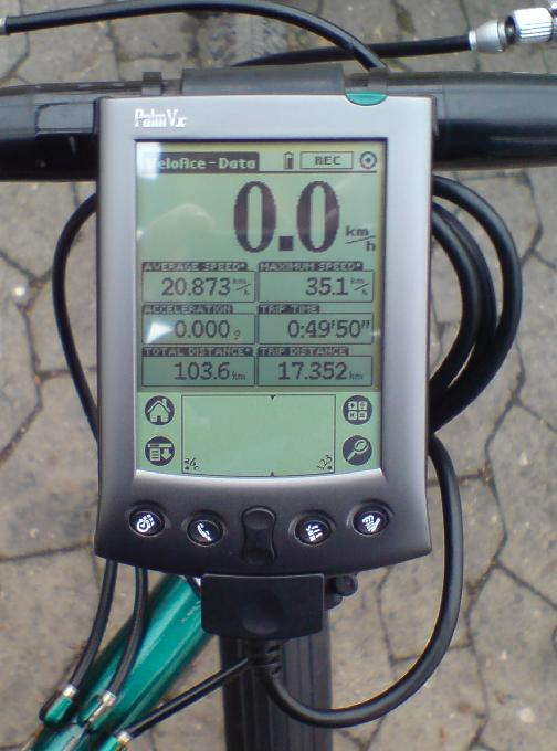 VeloAce running on a Palm Vx mounted on my Handlebar